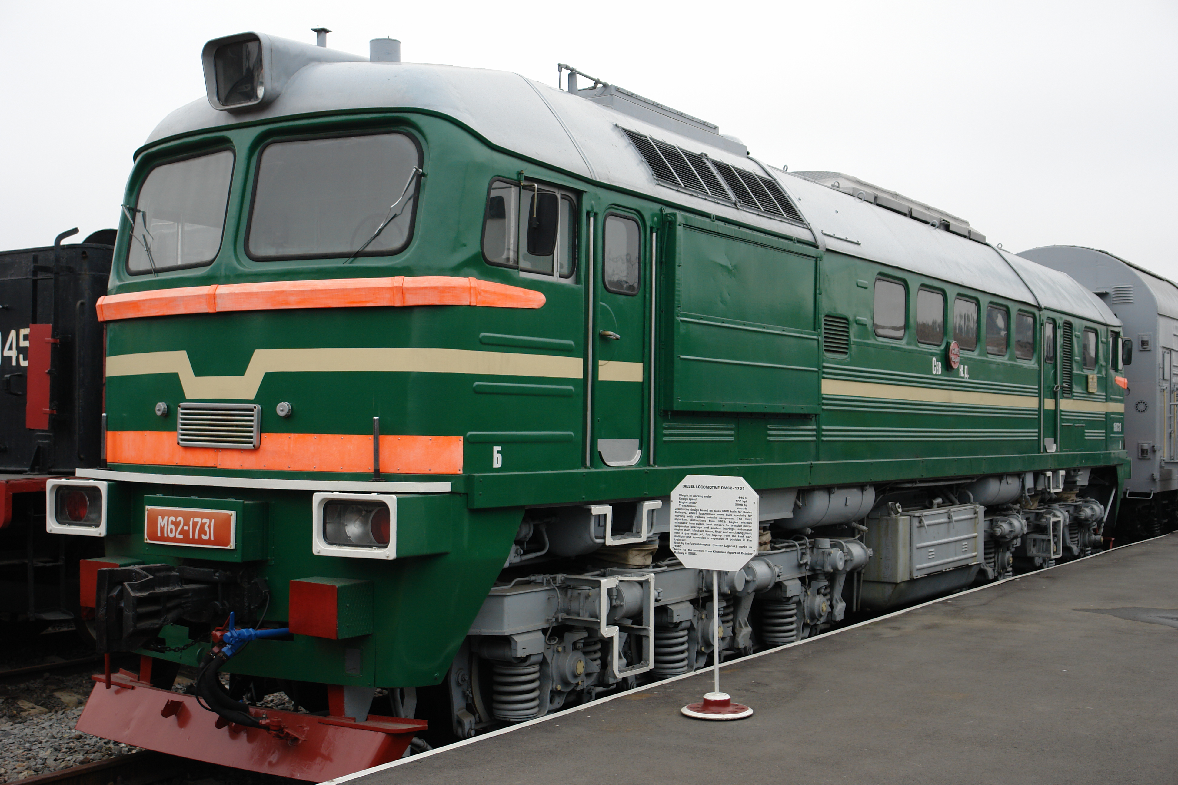 Diesel locomotive DM62-1731 Weight in working order116 tDesign speed100 kphEngine power2000 hpTransmissionelectric Locomotive design based on class M62 built for Soviet Railways. DM62 locomotives were built specially for working with railway missile complexes. The most important distinctions from M62: bogies without axleboxes' horn guides, heat sensors for traction motor suspension bearings and axlebox bearings, automatic engine start, blackout lamps, filter and ventilating plant with a gas-mask jet, fuel top-up from the tank car, multiple-unit operation irrespective of position in the train set. Built by the Voroshilovgrad (former Lugansk) works in 1983. Came to the museum from Khvoinaia deport of October Railway in 2006.